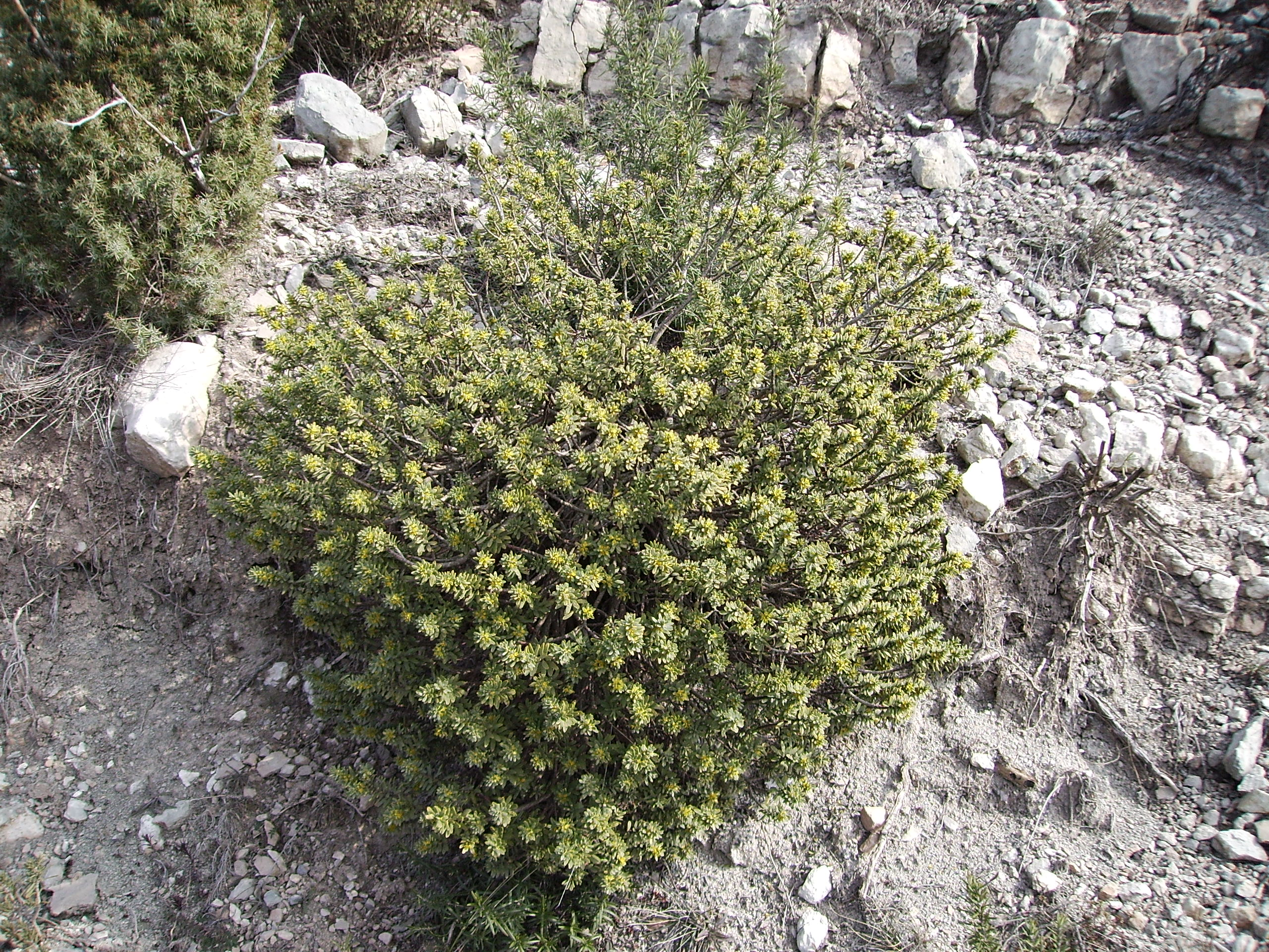 Thymelaea tinctoria, Flowers in winter. Castelltallat, Catalonia taken 2006-02-12 My own work.